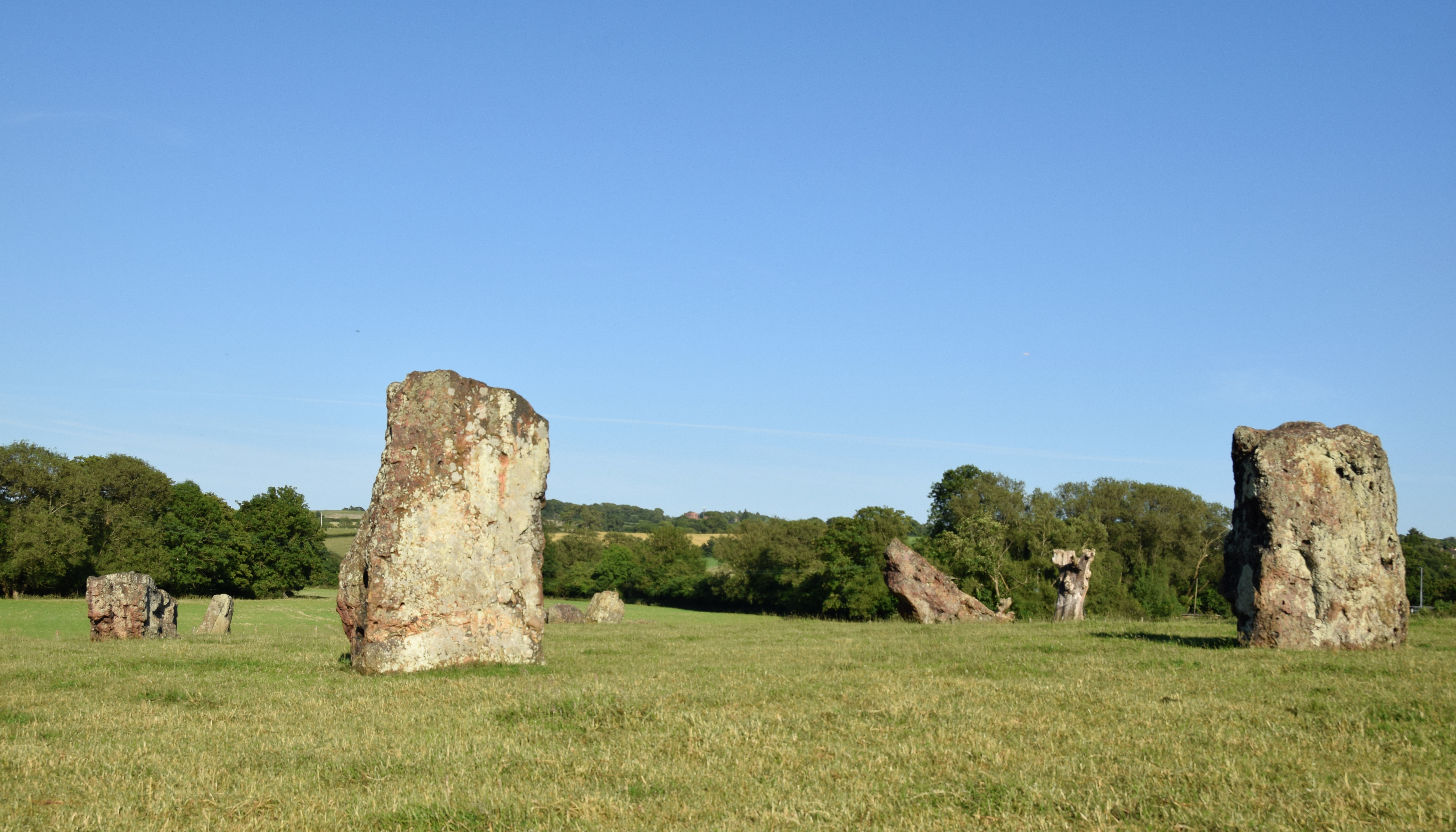 Two stone circles and two stone avenues at Stanton Drew, east of Court Farm Wikidata has entry Q17645436 with data related to this item.